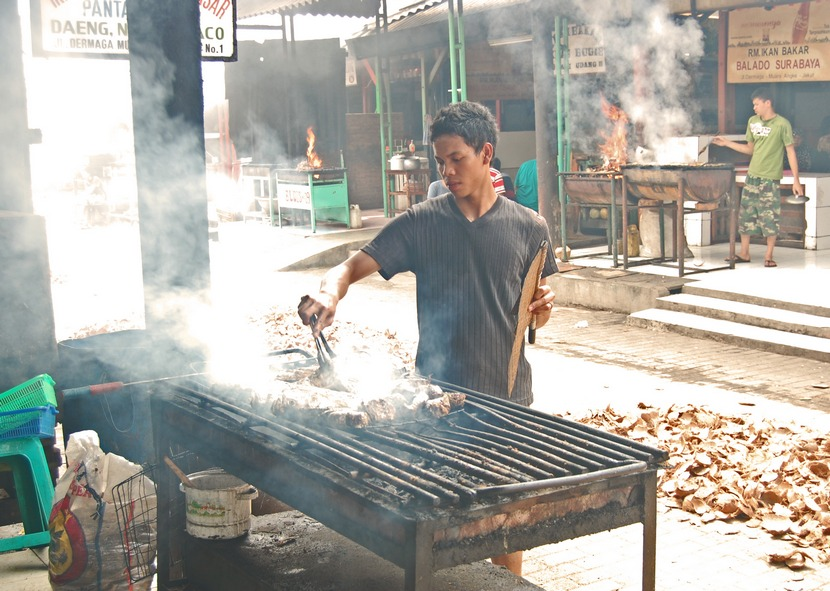 Fish barbeque, Muara Angke, Jakarta, Indonesia